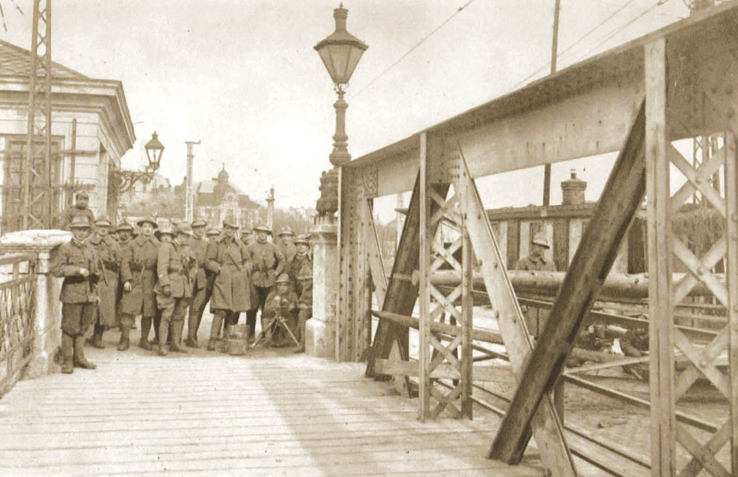 Czechoslovak legions from Italy patrolling a bridge in Bratislava.